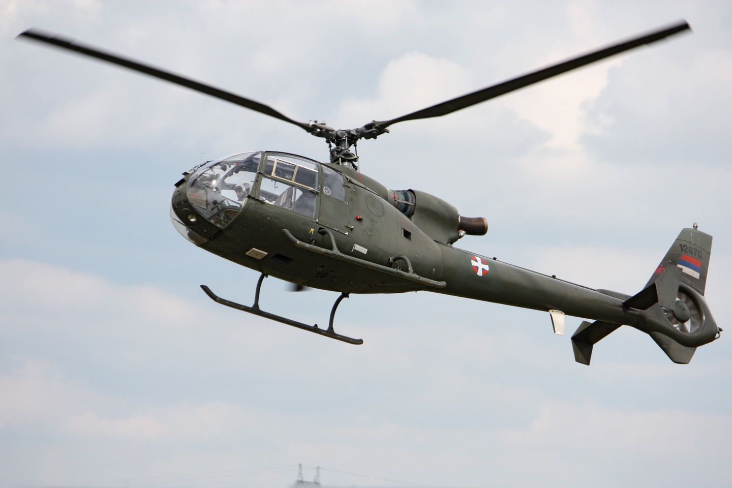 Airshow on Čenej airport, Novi Sad. Serbia - Air Force - Gazela 12870